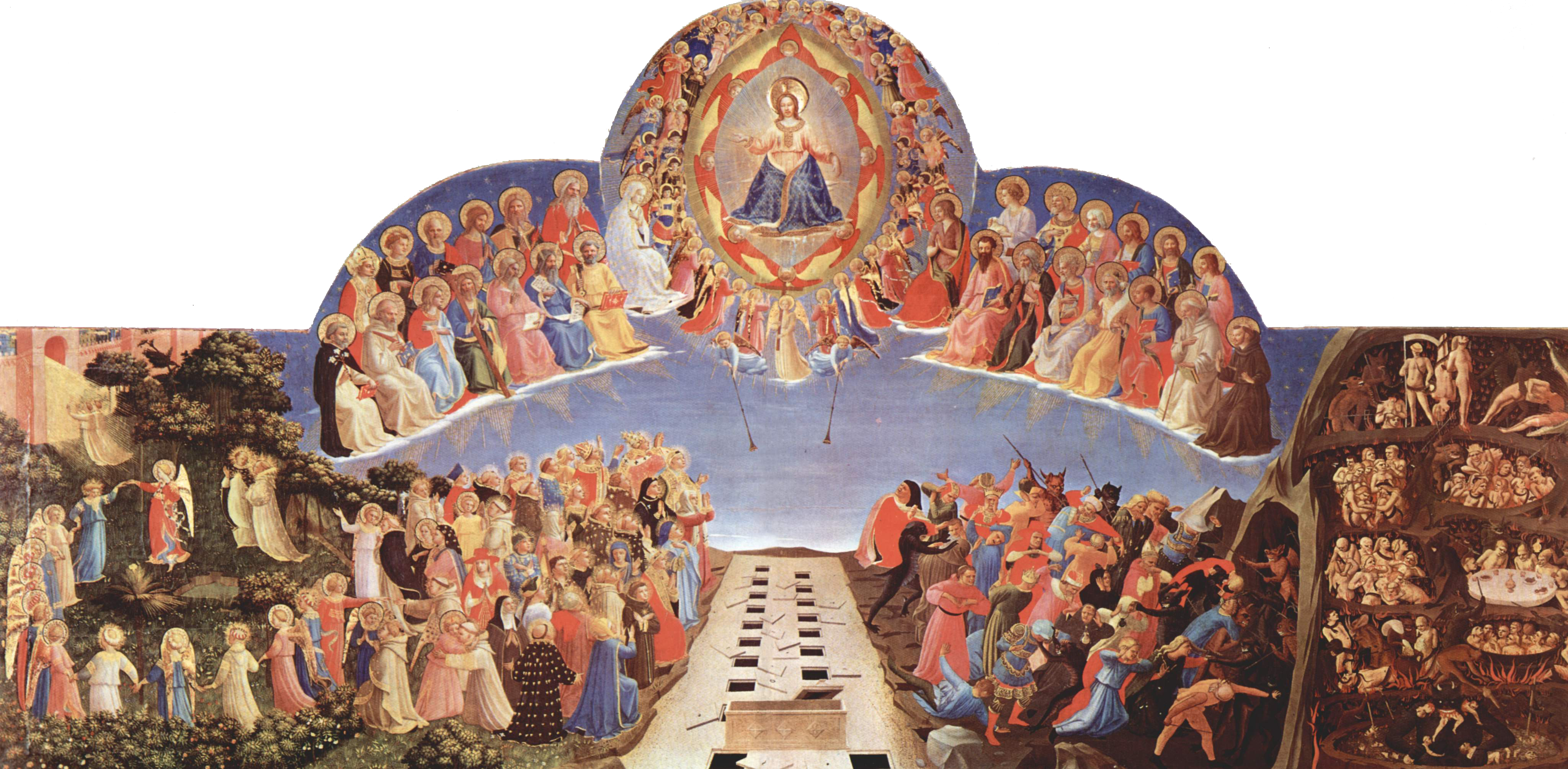 It represents the Last Judgment, executed by Jesus. To the left of Christ represents the condemned (to Hell) and, to the right, it represents the saved ones and the saints. In the center, the opened tombs symbolizes the resurrection of the dead.